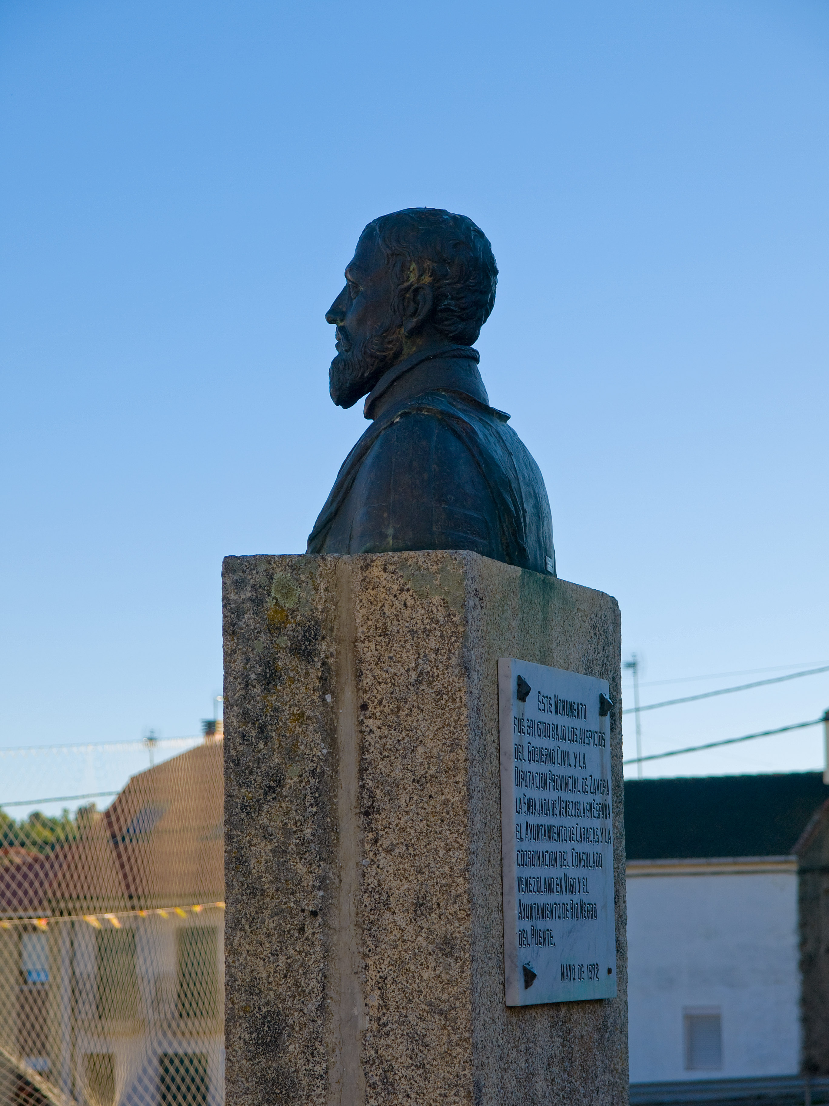 Statue of Diego de Losada, founder of Caracas, in its place of birth, the spanish village Rionegro del Puente, province of Zamora